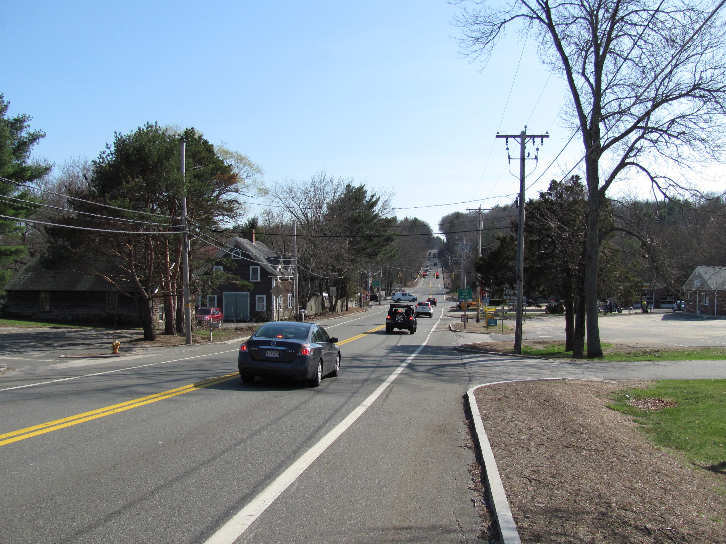 Looking south on US Route 1, Topsfield Massachusetts